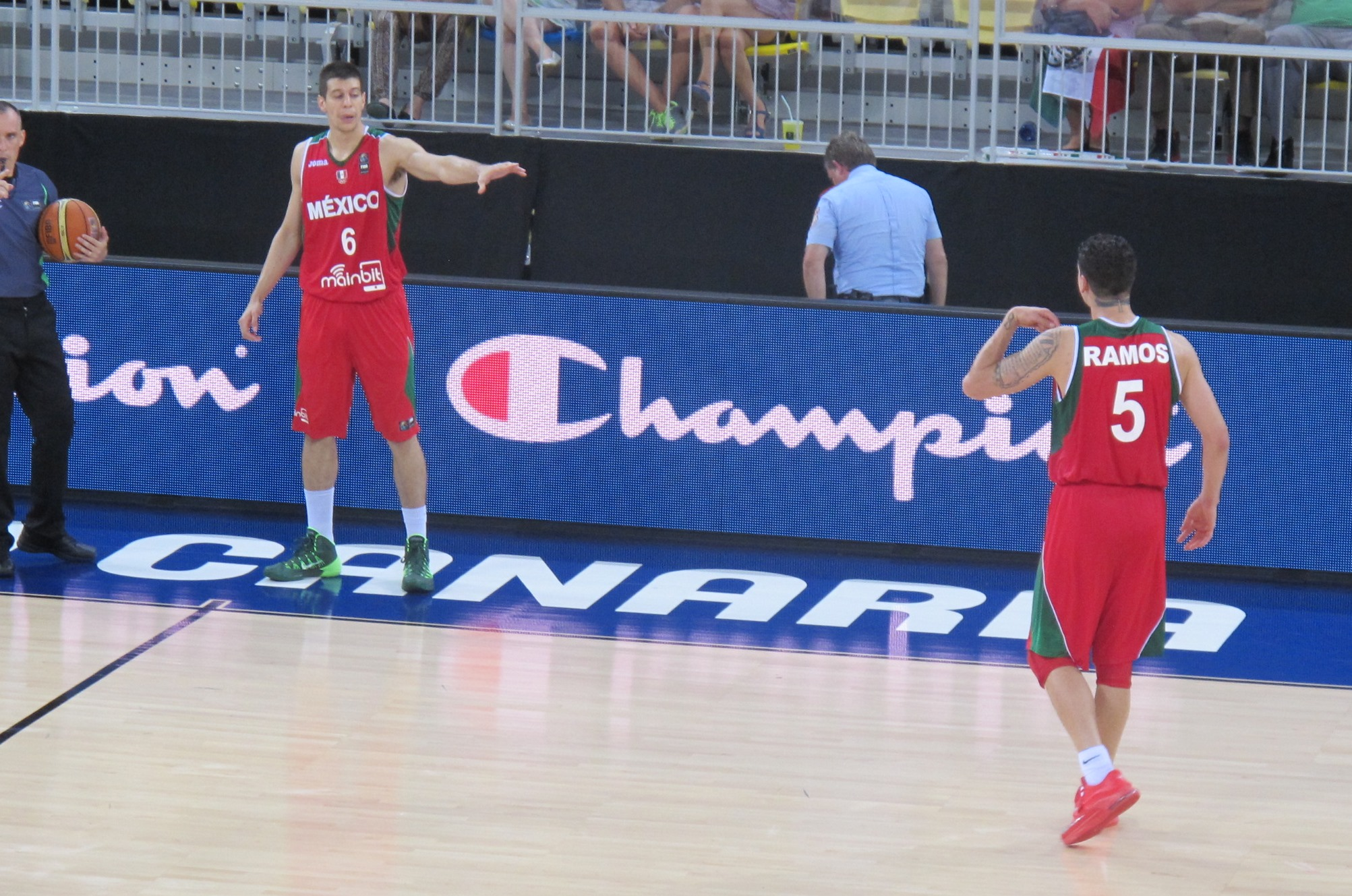 taken during 2014 Basketball World Cup